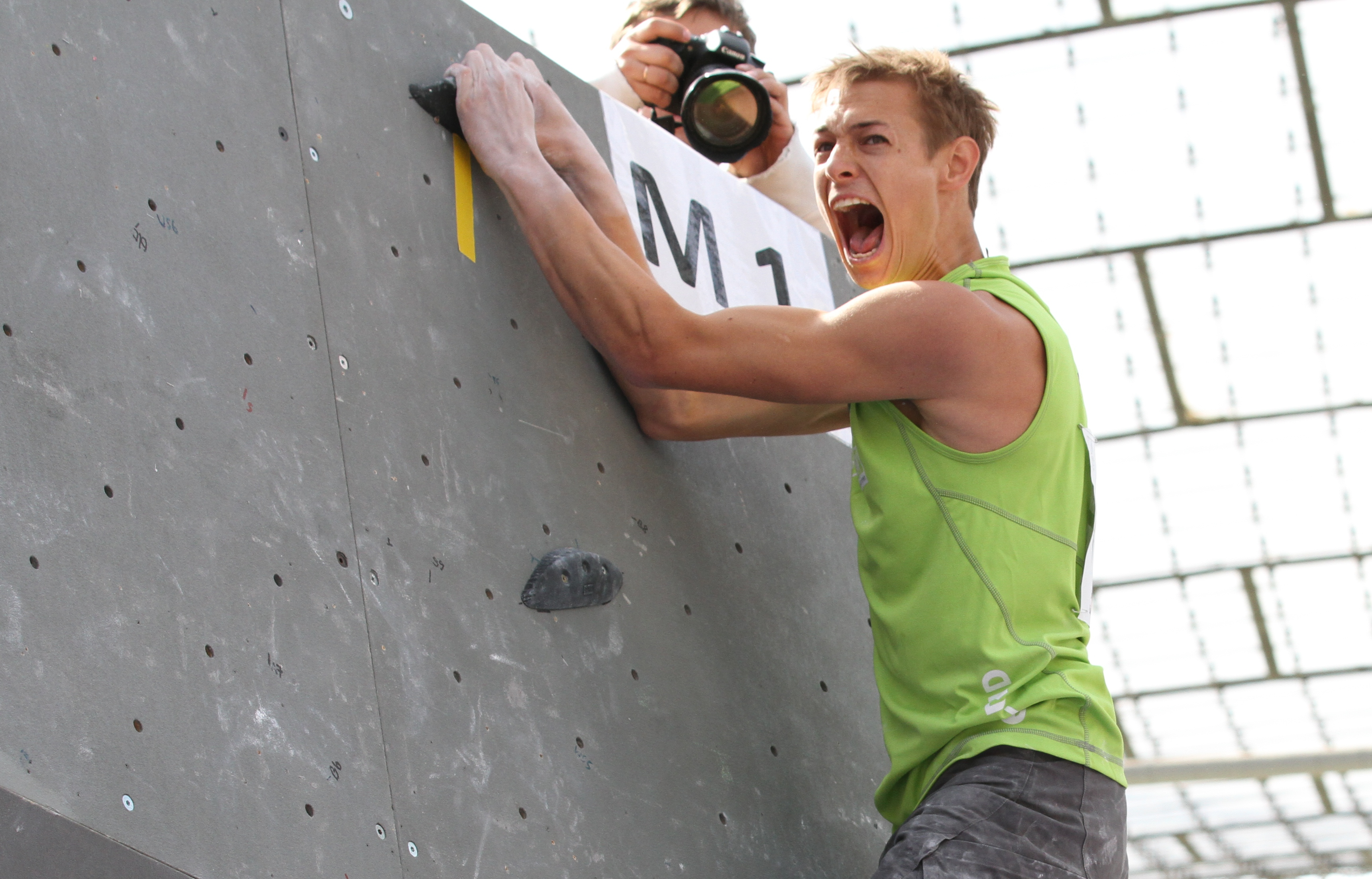 Jonas Baumann, GER at the Boulder Worldcup 2012